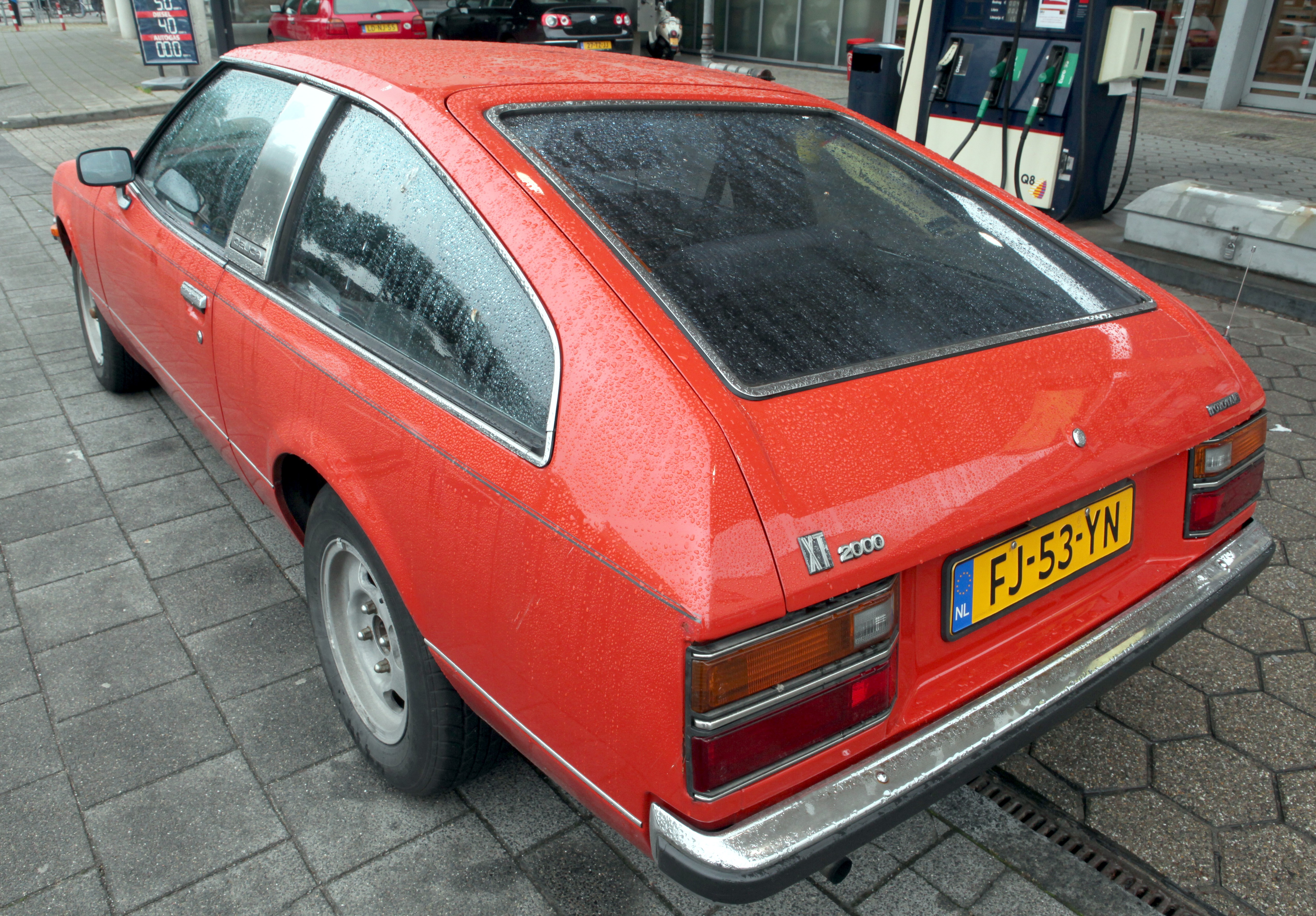 Toyota Celica 2000 Liftback XT